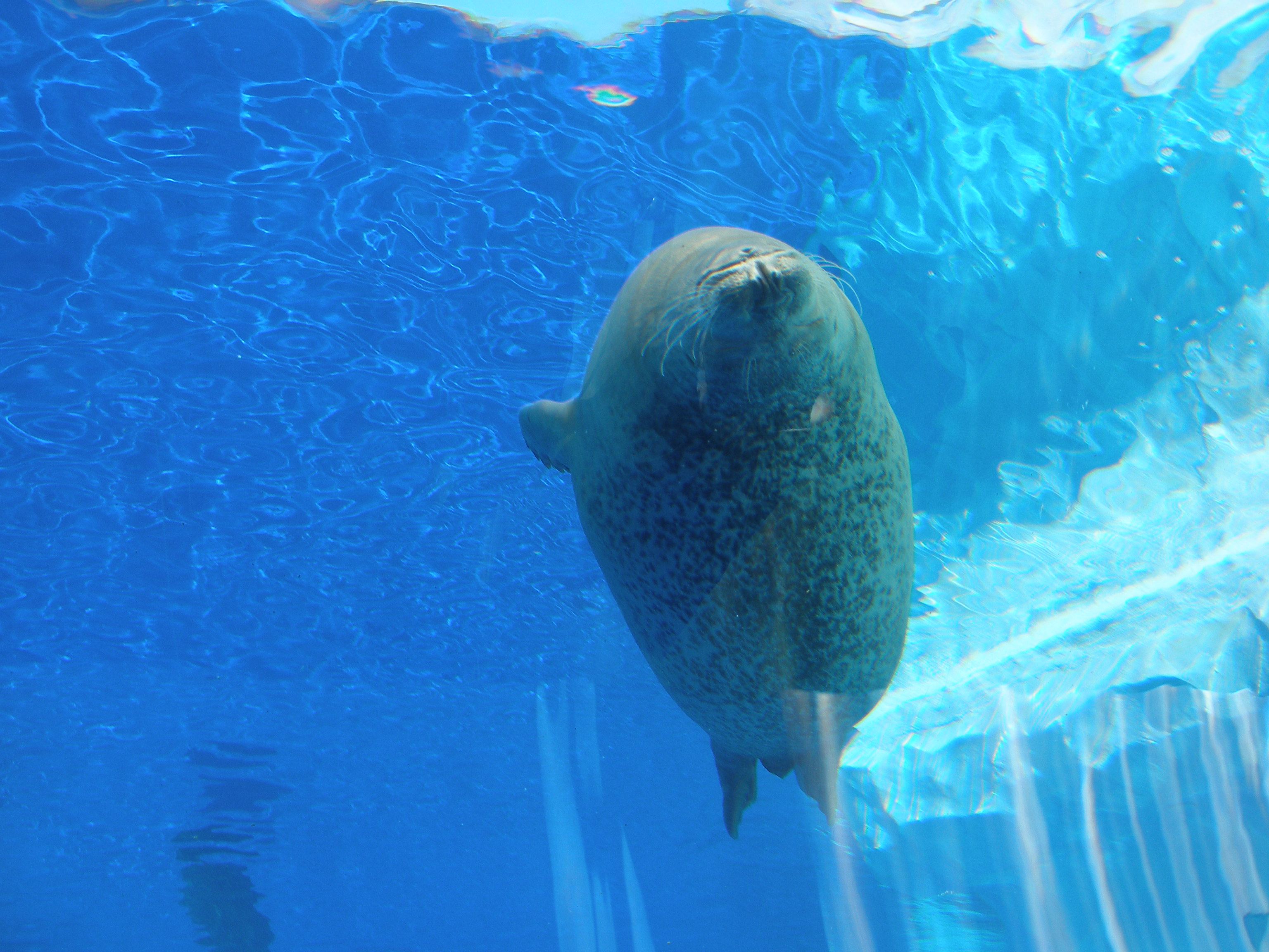 A seal swims above an underwater tunnel at the Detroit Zoo.